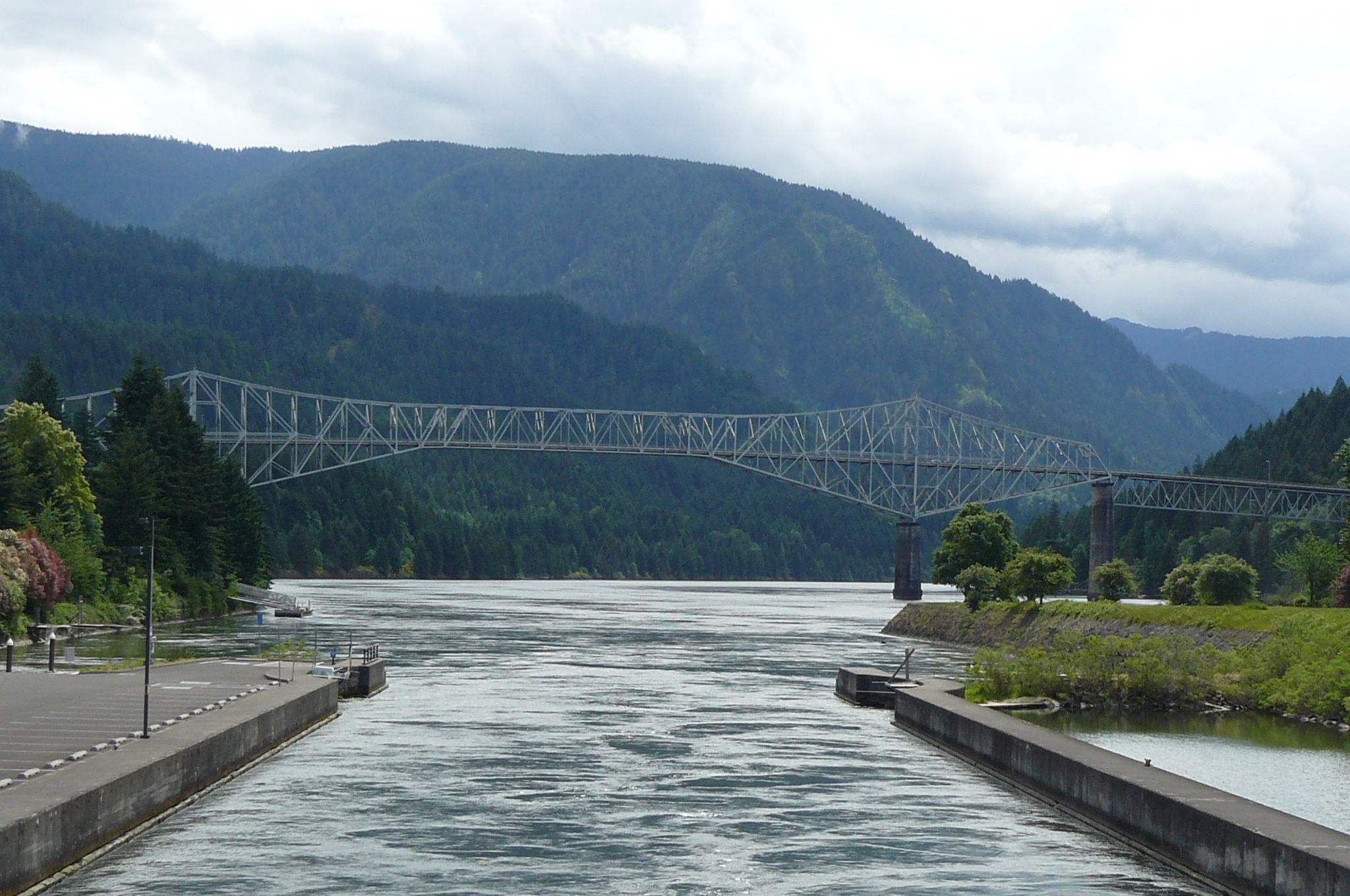 From Cascade Locks and Canal to the east, with Bridge of the Gods in the background. Thunder Island to the right.